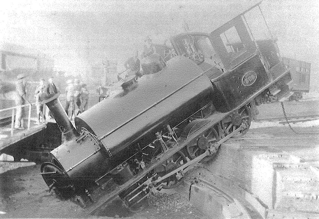 Central South African Railways (CSAR) Shunter no. 303, ex IMR no. 303, ex OVGS no. 3, possibly ex CGR no. W22